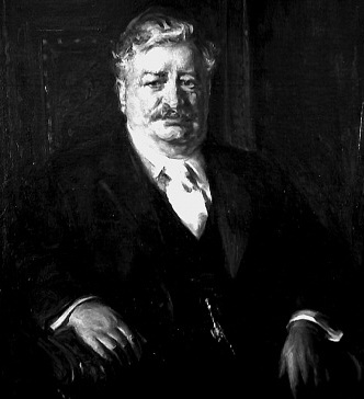 Emanuel L. Philipp (1861-1925)